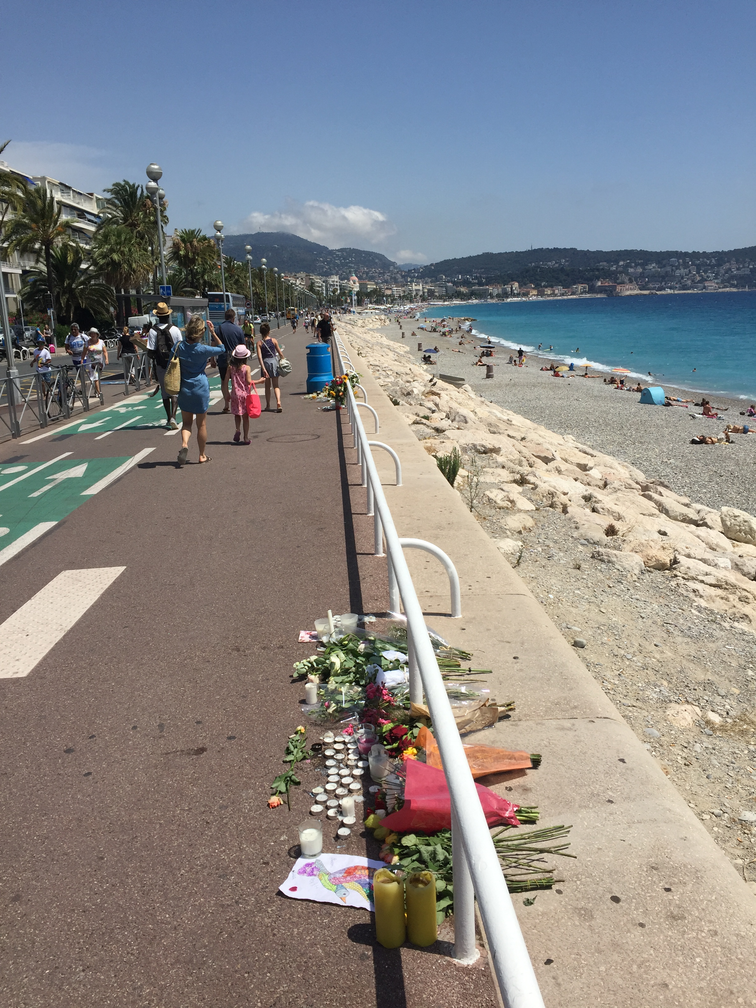 The Promenade de Anglais, Nice.